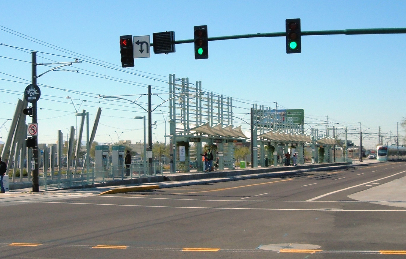 Photograph of the Gateway Community College (or Washington at 38th Street) Station of METRO Light Rail that serves the Phoenix area, Arizona, USA. This photograph was taken during the light rail's grand opening celebration on December 28, 2008.